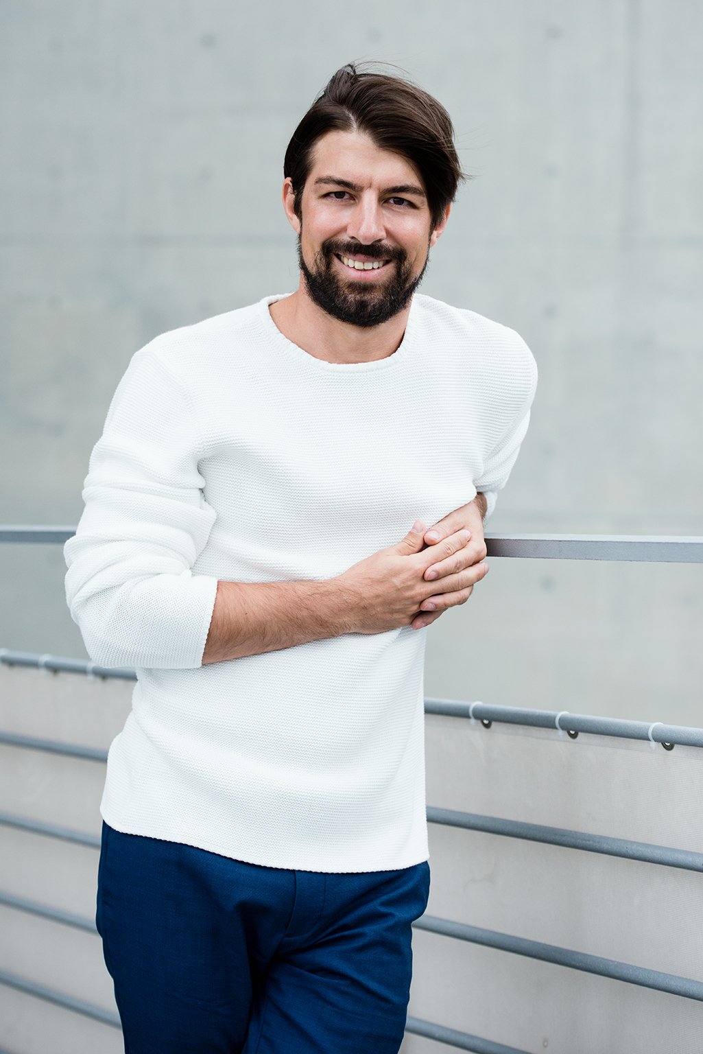 Andreas Kaplan